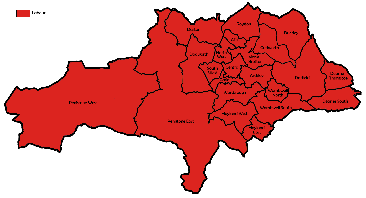 Ward map of Barnsley council with political colouring for the 1990 election.